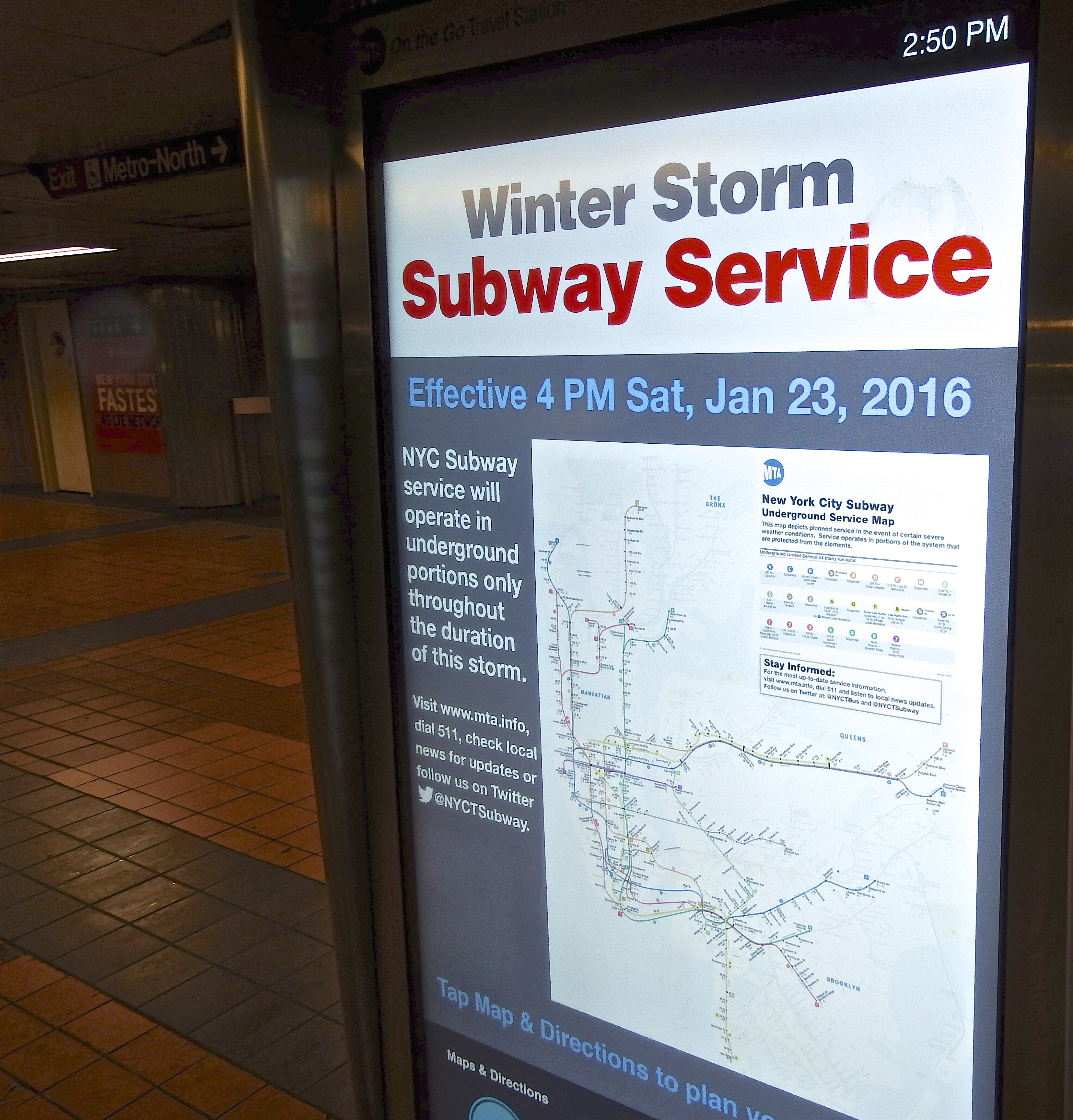 An MTA service advisory, warning of the imminent suspension of all above-ground city subway service, displayed on digital signs in Grand Central–42nd Street station in Manhattan, New York during Winter Storm Jonas, January 23, 2016.